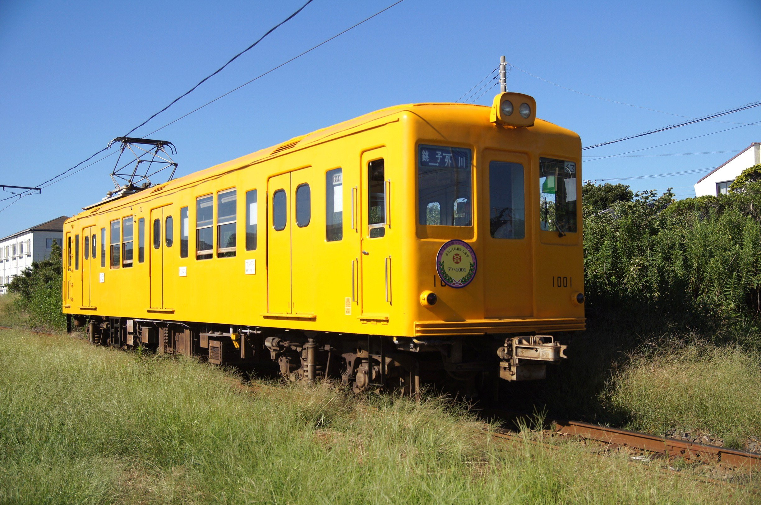 Choshi Electric Railway 1000 series EMU car DeHa 1001 in Ginza Line livery approaching Inuboh Station on a Choshi-bound service